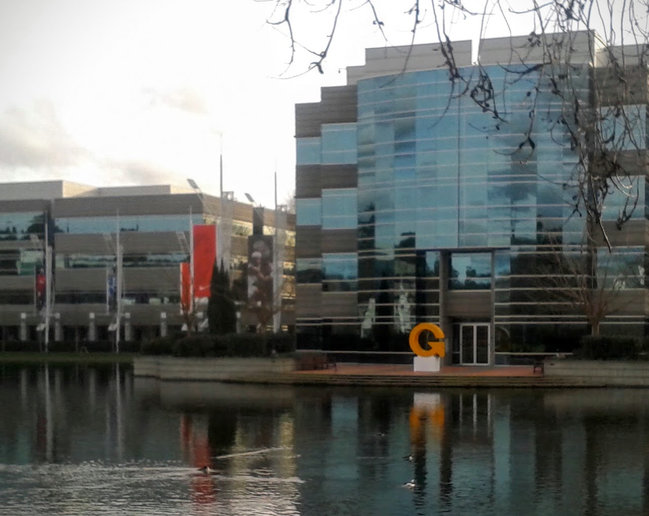 A three-dimensional representation of the Girl Effect logo, installed at Nike's world headquarters in Beaverton, Oregon.